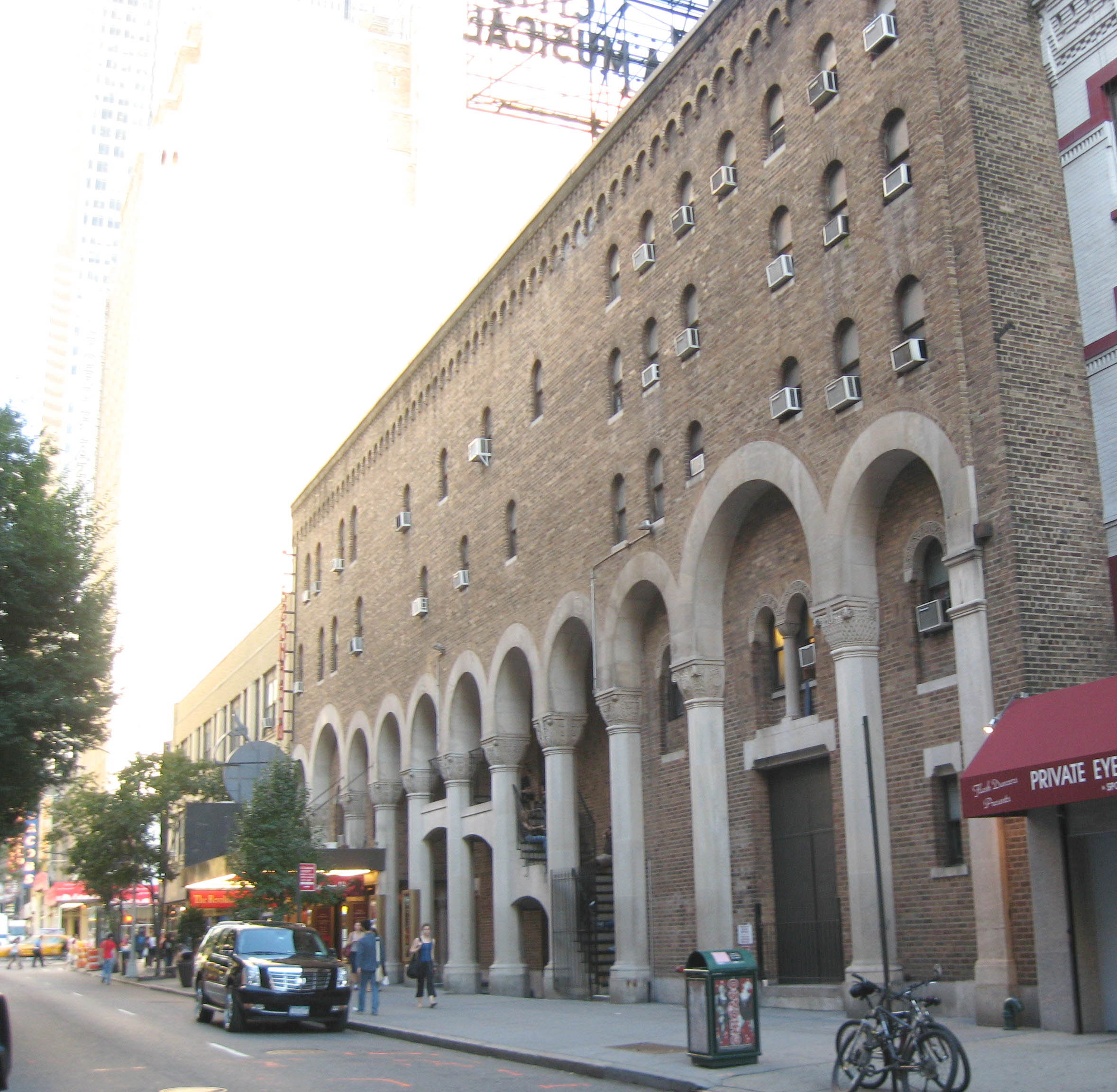 Looking southeast across 45th Street at Al Hirschfeld Theatre on a cloudy afternoon